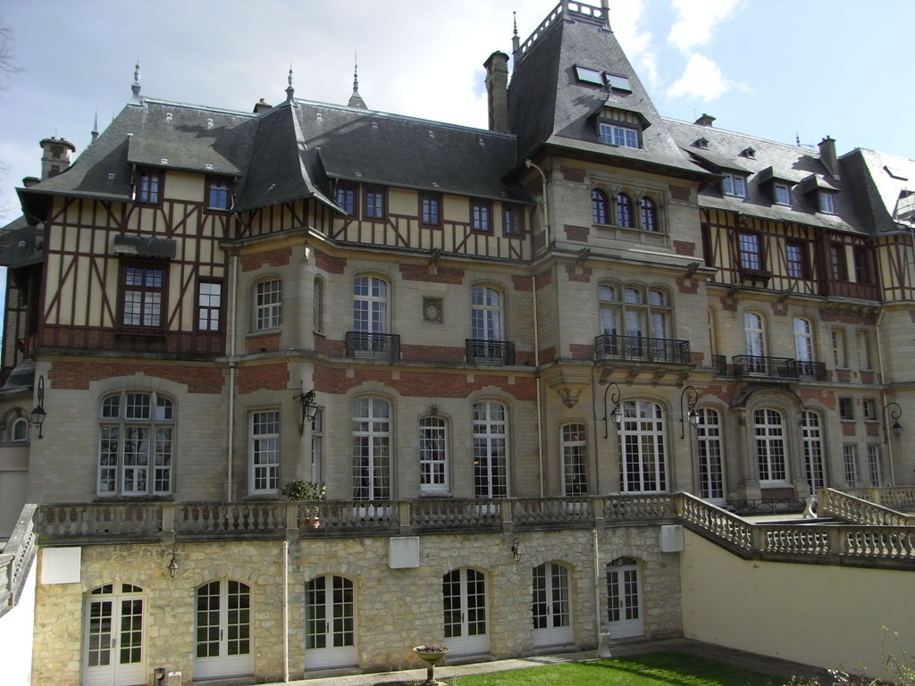 A view of part of the Château Montvillargenne